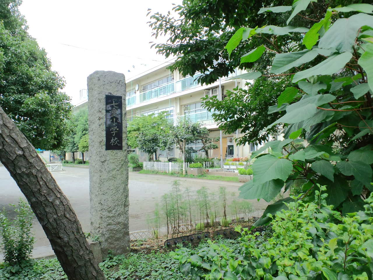 Nanasato Primary school in Minuma-ku, Saitama, Japan